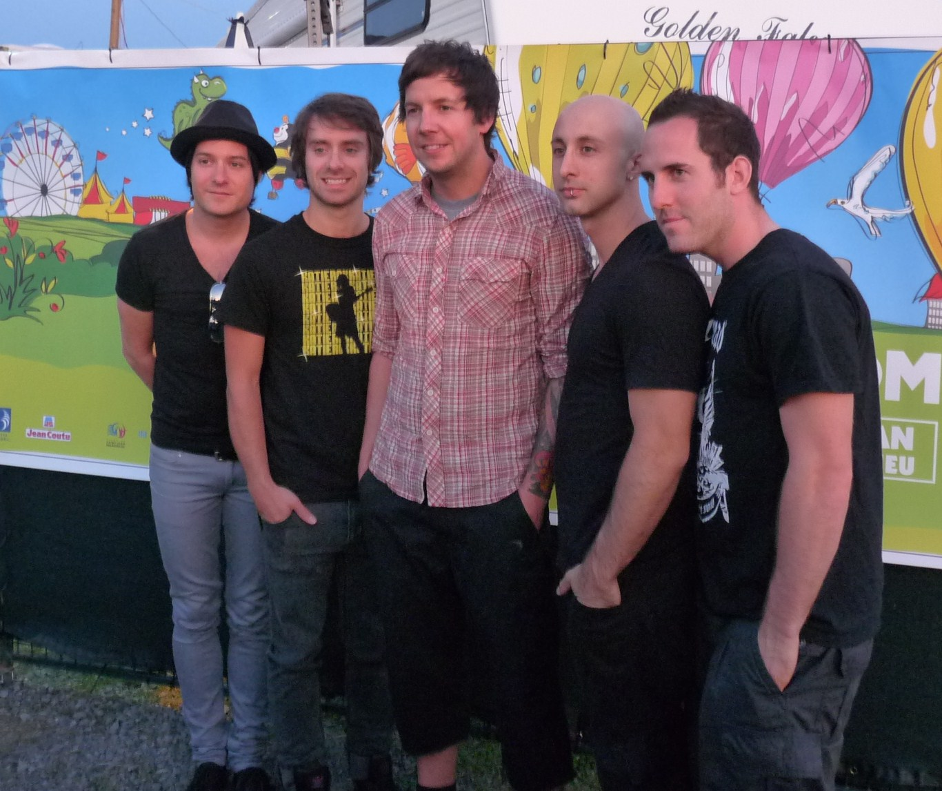 Group shot of Simple Plan backstage at the show at St.-Jean-sur-Richelieu, Quebec, 8 August 2009